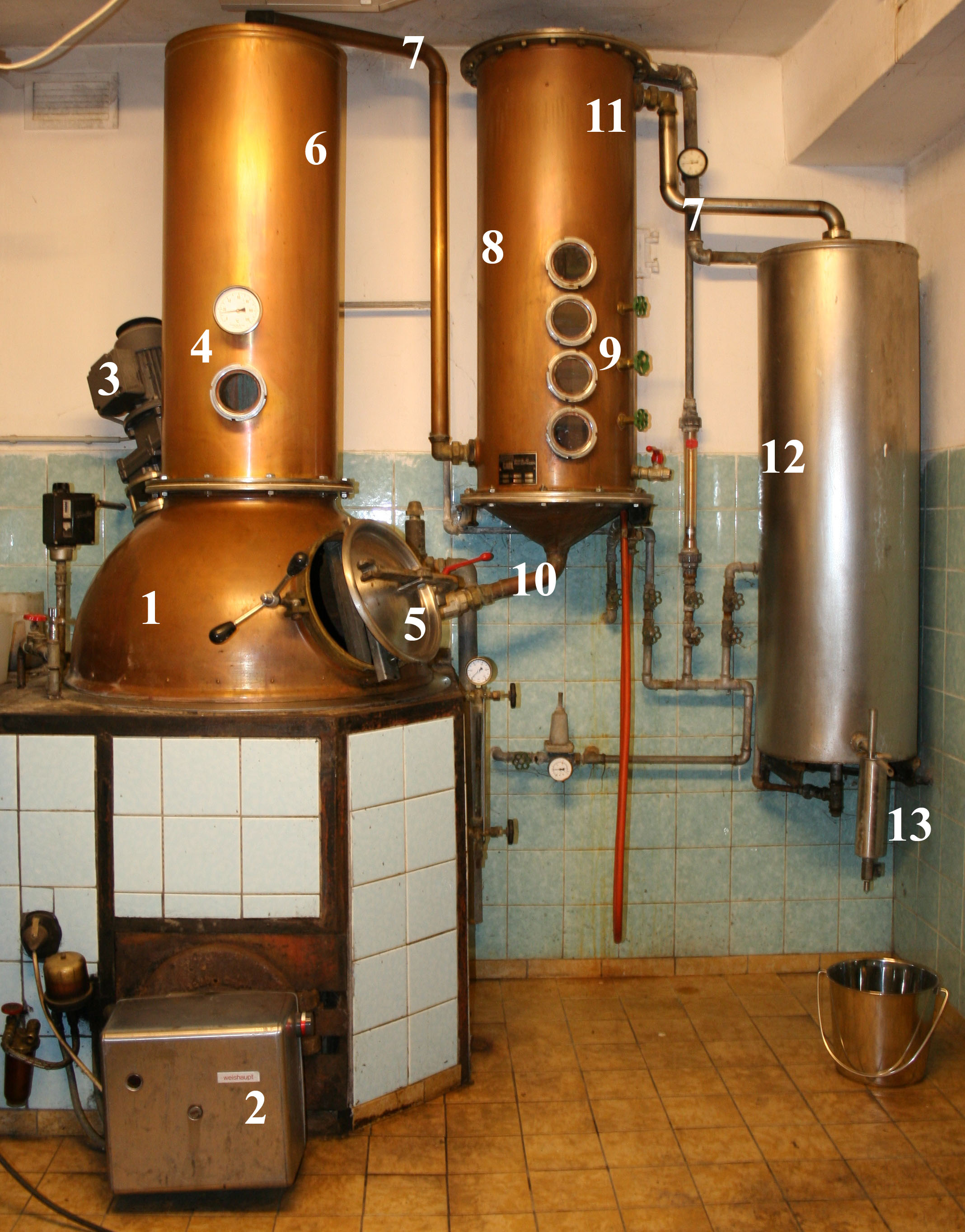 schnapps-destillery, bavaria; still pot heater Stirrer/Agitator (The actual stirrer is inside the column, what is annotated is simply the motor.) Reboil viewing port Feed port/pressure seal hatch Distillation column, lower part distillation splitting pipe. This is used to reduce the height of the column Upper column Plate-plate viewing ports Reboil return Condensor/reflux take off & return Condensor/reflux drum distillate tapping.